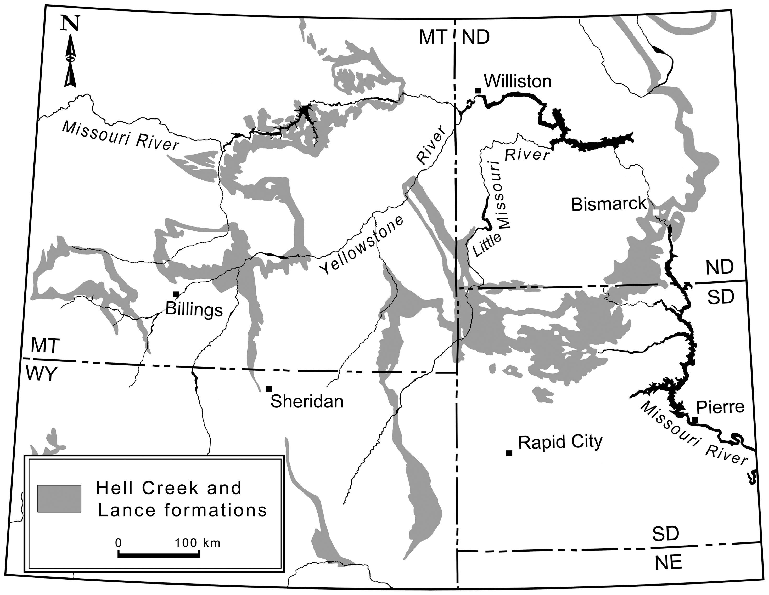 Exposures of the Upper Cretaceous Hell Creek and Lance formations in western North America. Scale bar = 100 km.